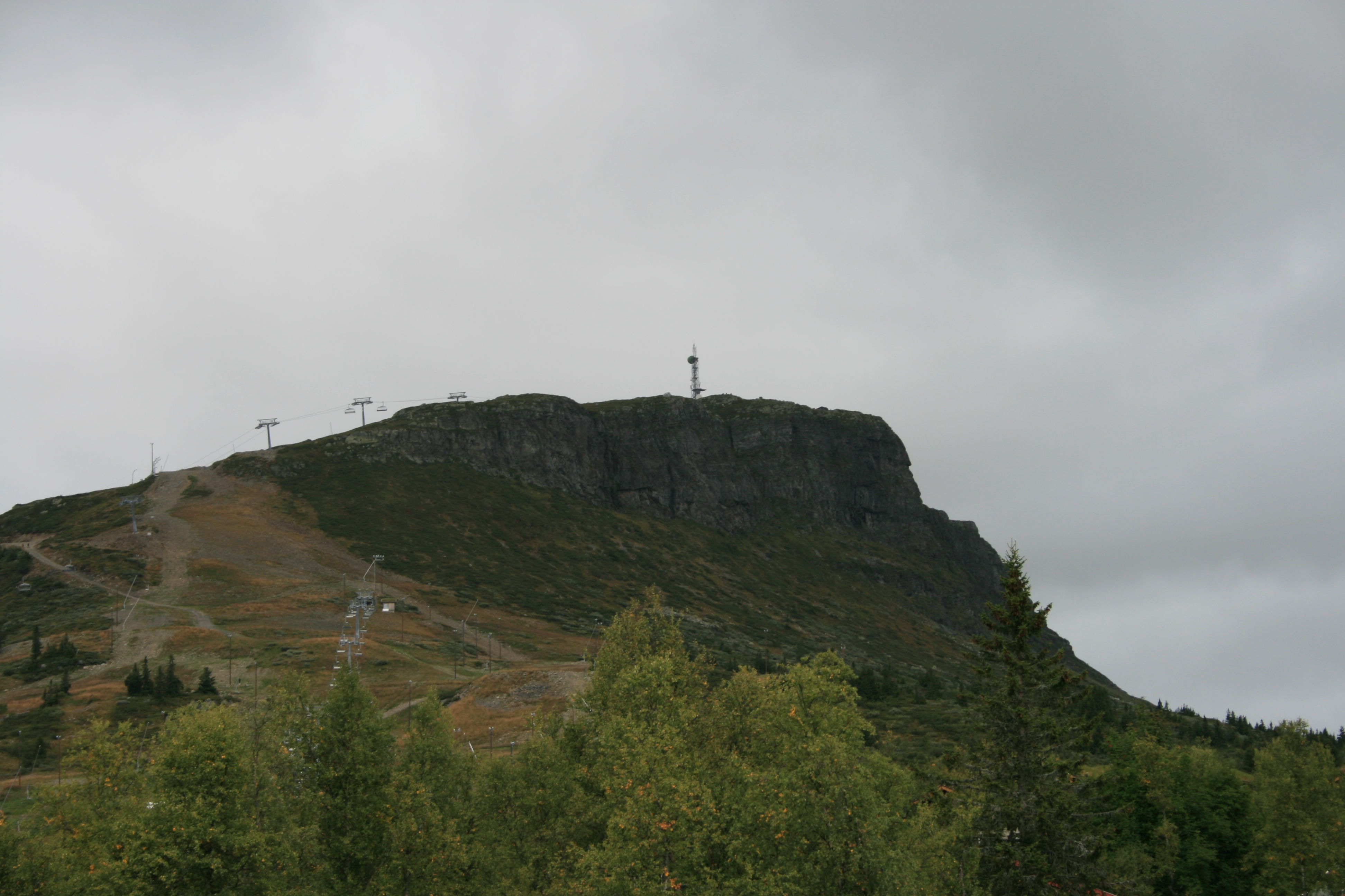 Skeikampen